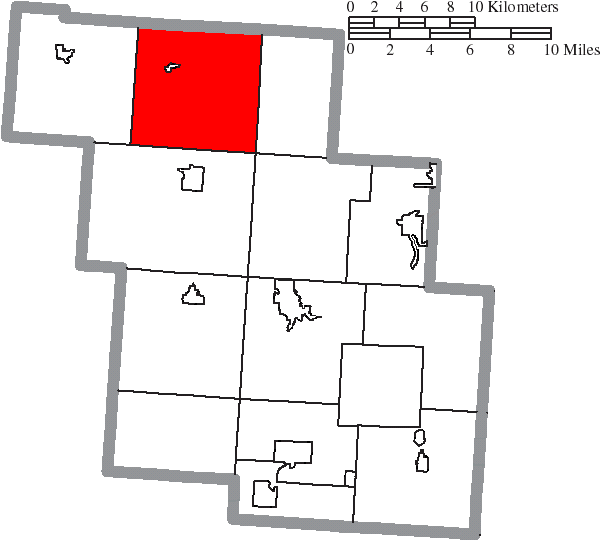 Map of the municipal and township boundaries of Perry County, Ohio, United States, as of the 2000 census, with the location of Hopewell Township highlighted. Township borders are shown only in unincorporated areas in order to differentiate incorporated and unincorporated areas more clearly.